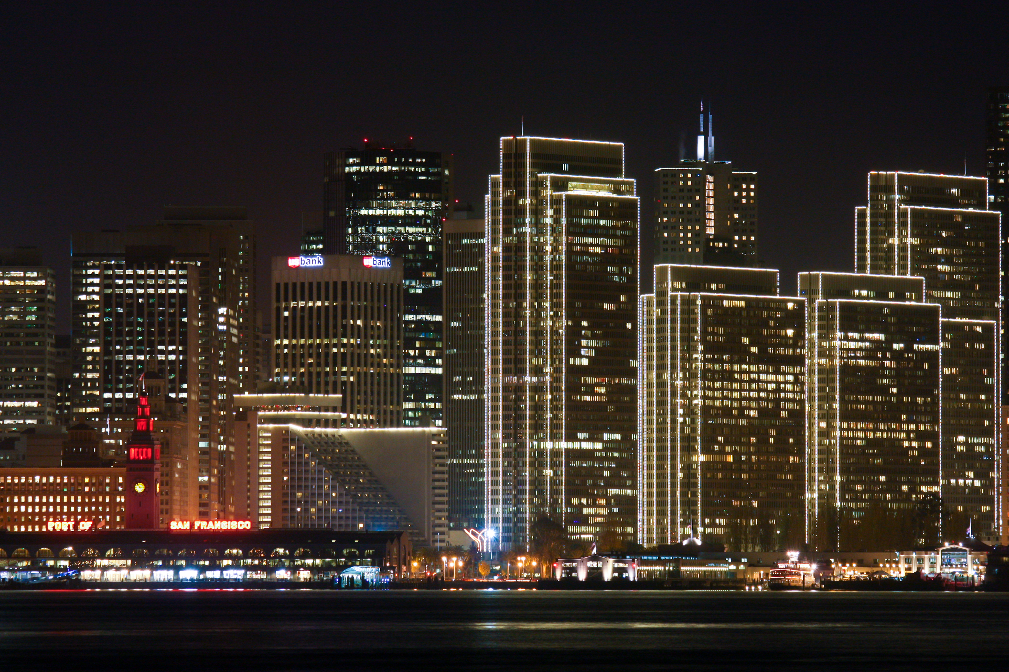 Holiday lighting at Embarcadero Center, San Francisco.